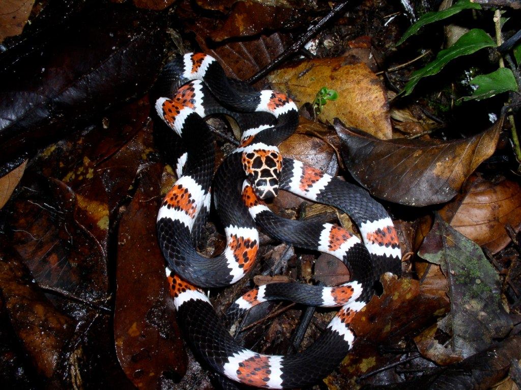 Amazon banded snake (Rhinobothryum lentiginosum) in Cristalino Jungle Lodge, Mato Grosso.